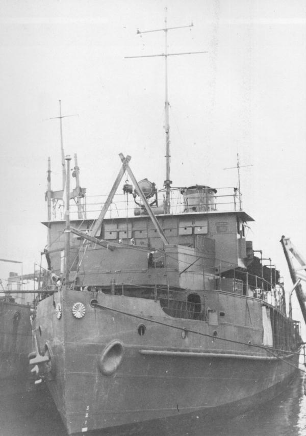 Japanese Gunboat "Karatsu" at Manira Bay.(ex.USS-Luzon)